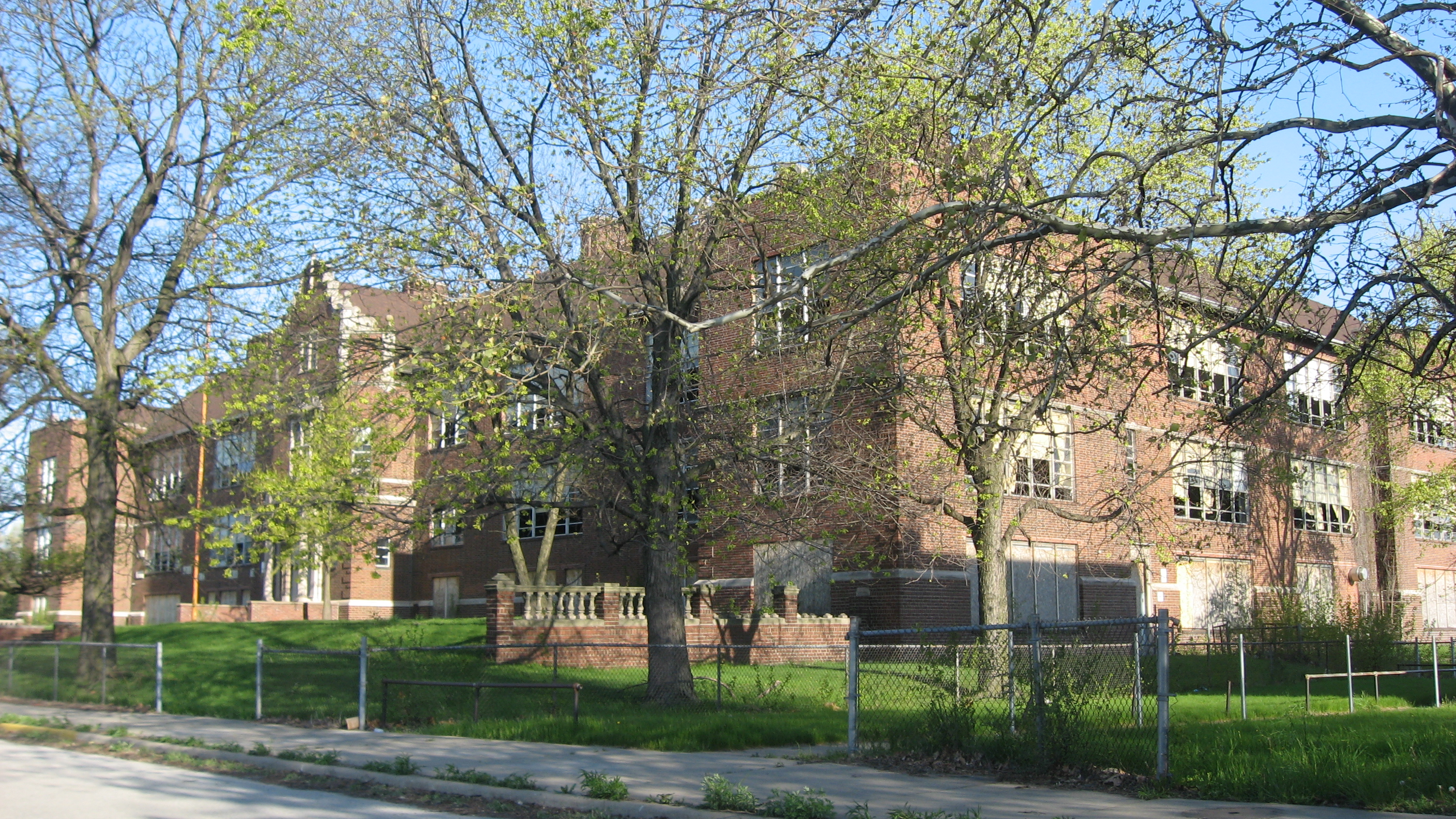 Front and eastern side of the Ralph Waldo Emerson School, located at 716 E. Seventh Avenue in Gary, Indiana, United States. Built in 1908, it is listed on the National Register of Historic Places.